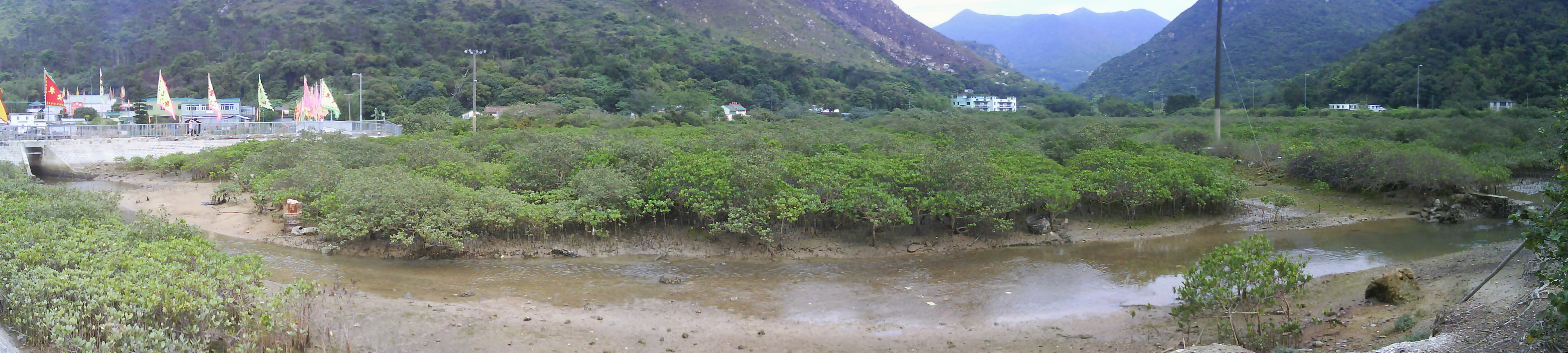 Mangroves in Tai O.